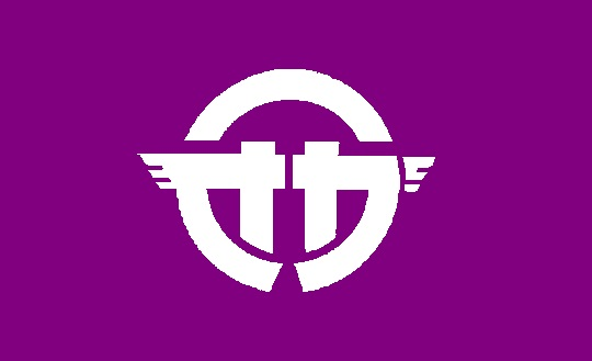 Flag of Oga Akita